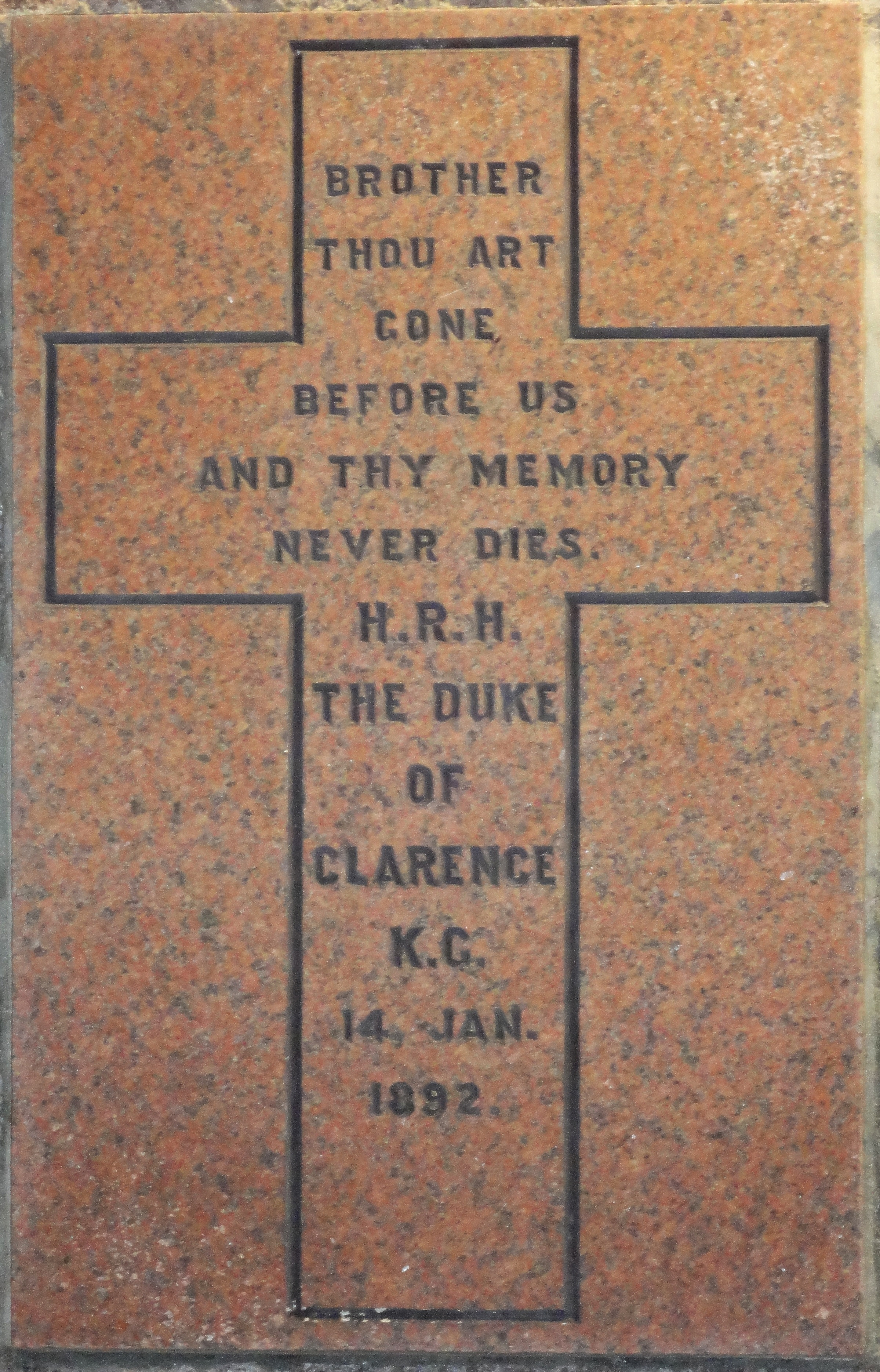 Braemar, Mar Lodge Estate, St Ninian's Chapel - wall plaque with inscription commemorating HRH Prince Albert Victor, 1st Duke of Clarence (1864–1892)